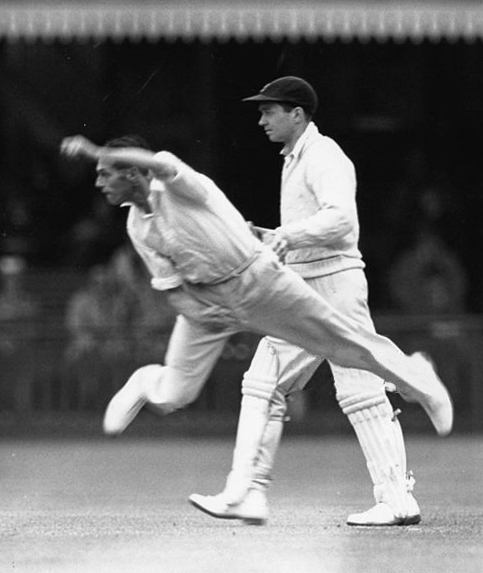 June 1938: Cricketer J Cornford of Sussex bowling during a match against Essex.